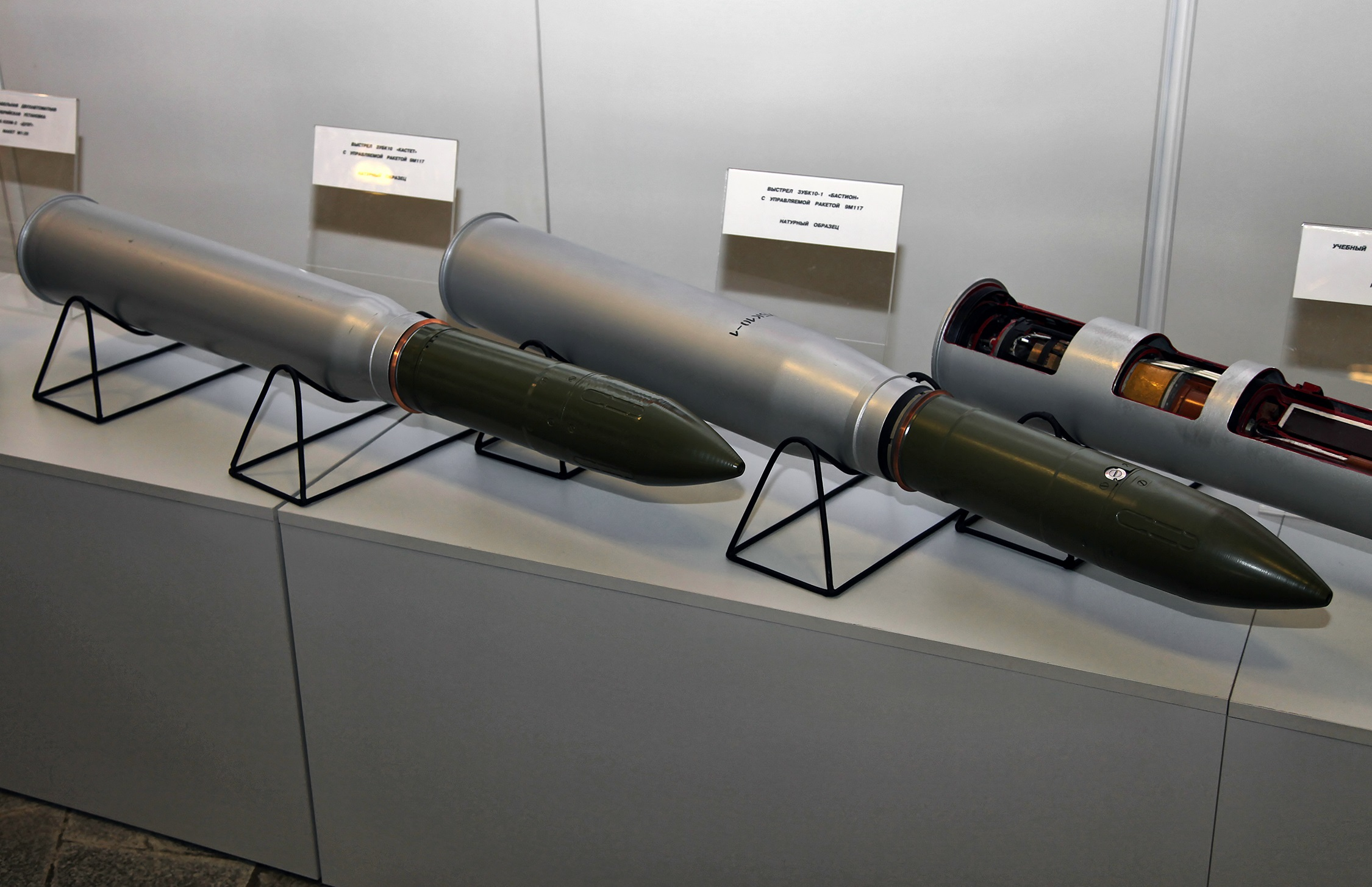 3UBK10 and 3UBK10-1 ammunition with 9M117 ATGM